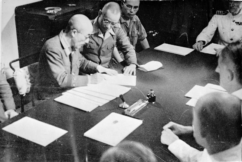 IWM caption : "JAPANESE SURRENDER AT SINGAPORE, 4 SEPTEMBER 1945. General Itagaki signing the terms for the reoccupation of Japan on board HMS SUSSEX".